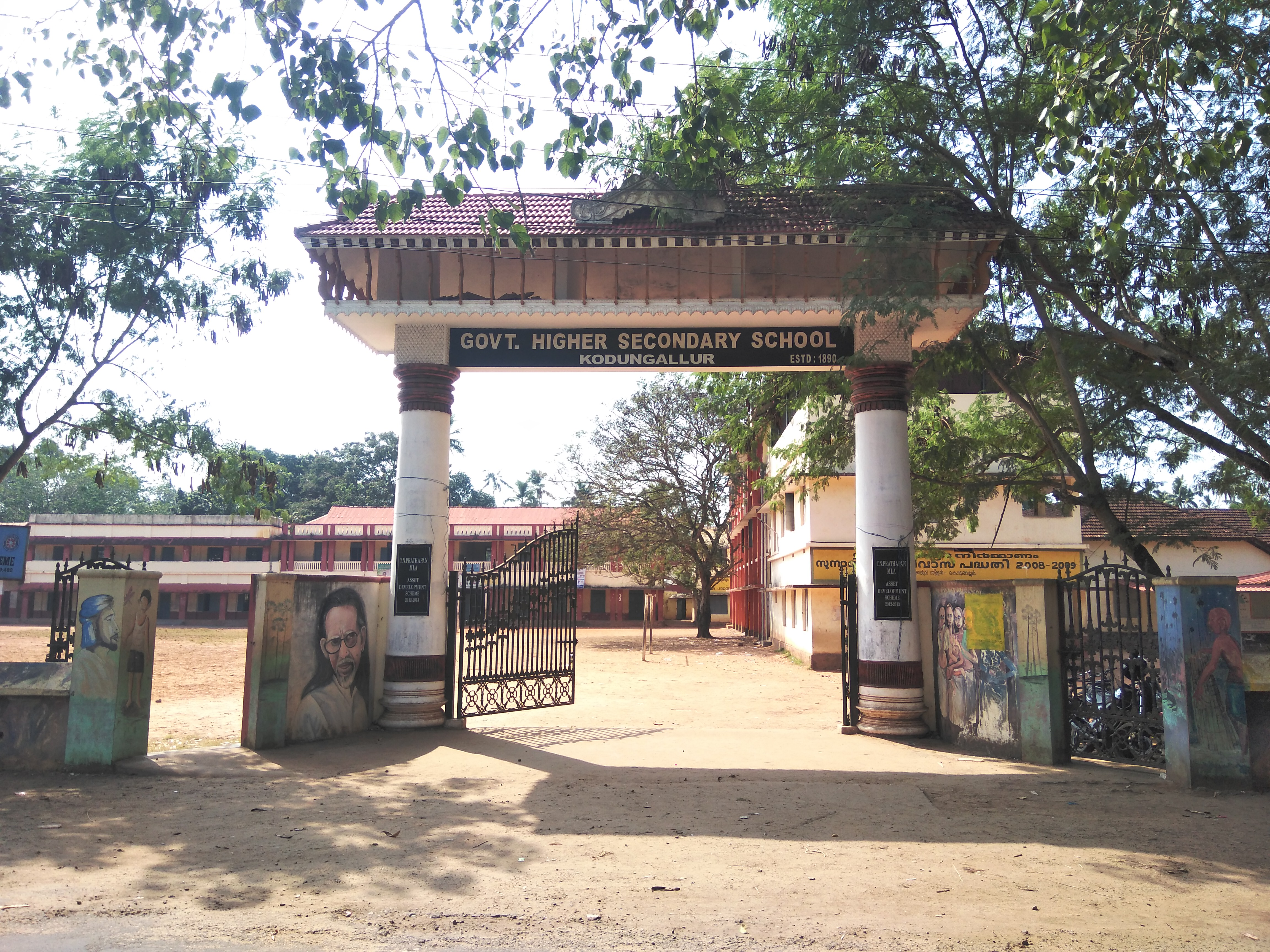 ghss kodungallur, school in thrissur district